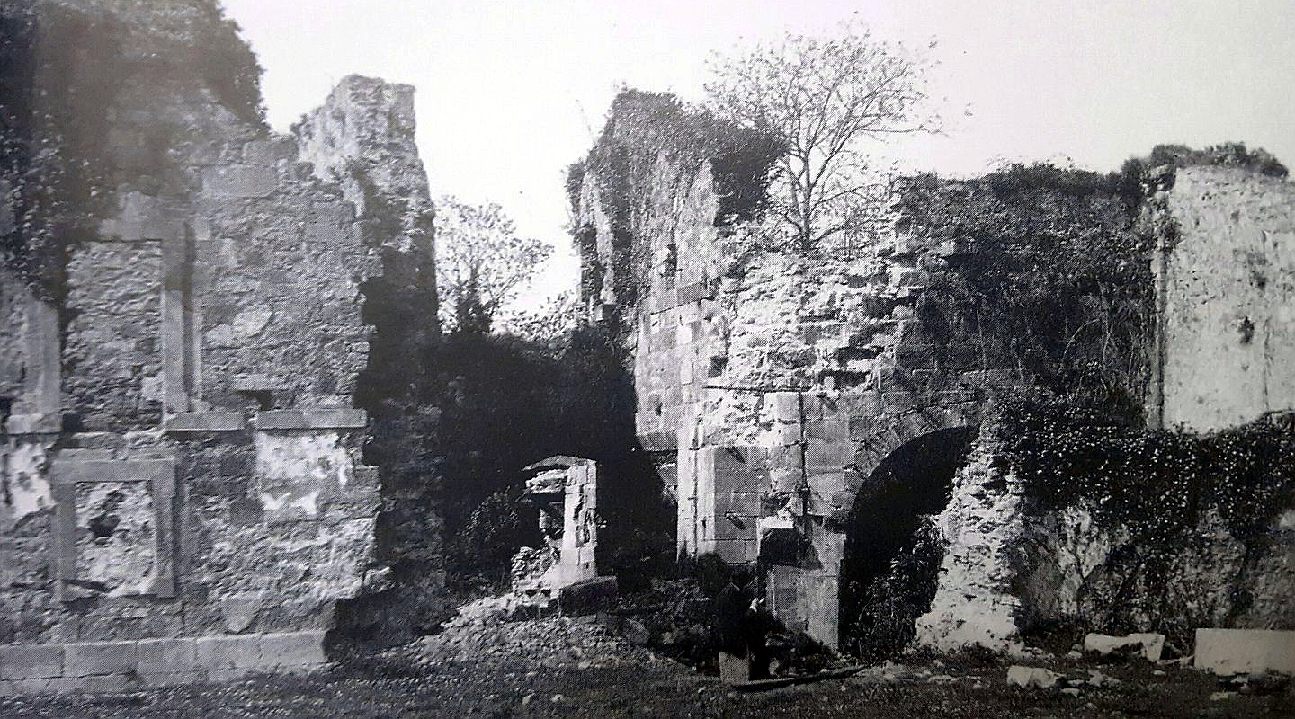 Ruins of Santa Teresa's blast furnace built in 1635 in the Royal Artillery Factory of La Cavada (Cantabria, Spain). The photograph was taken at the end of the 19th century. Currently there are no visible remains.